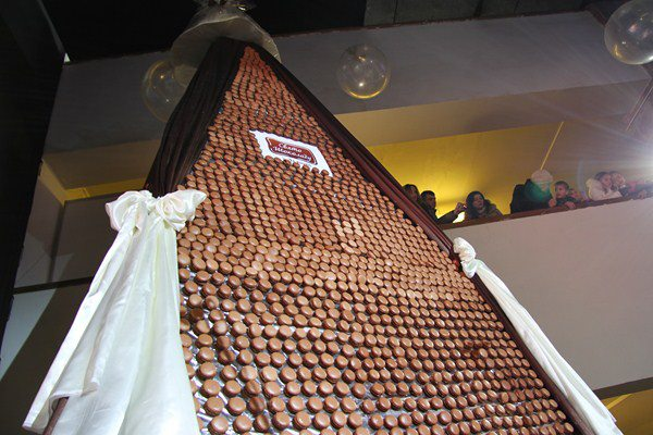 Піраміда з маракун